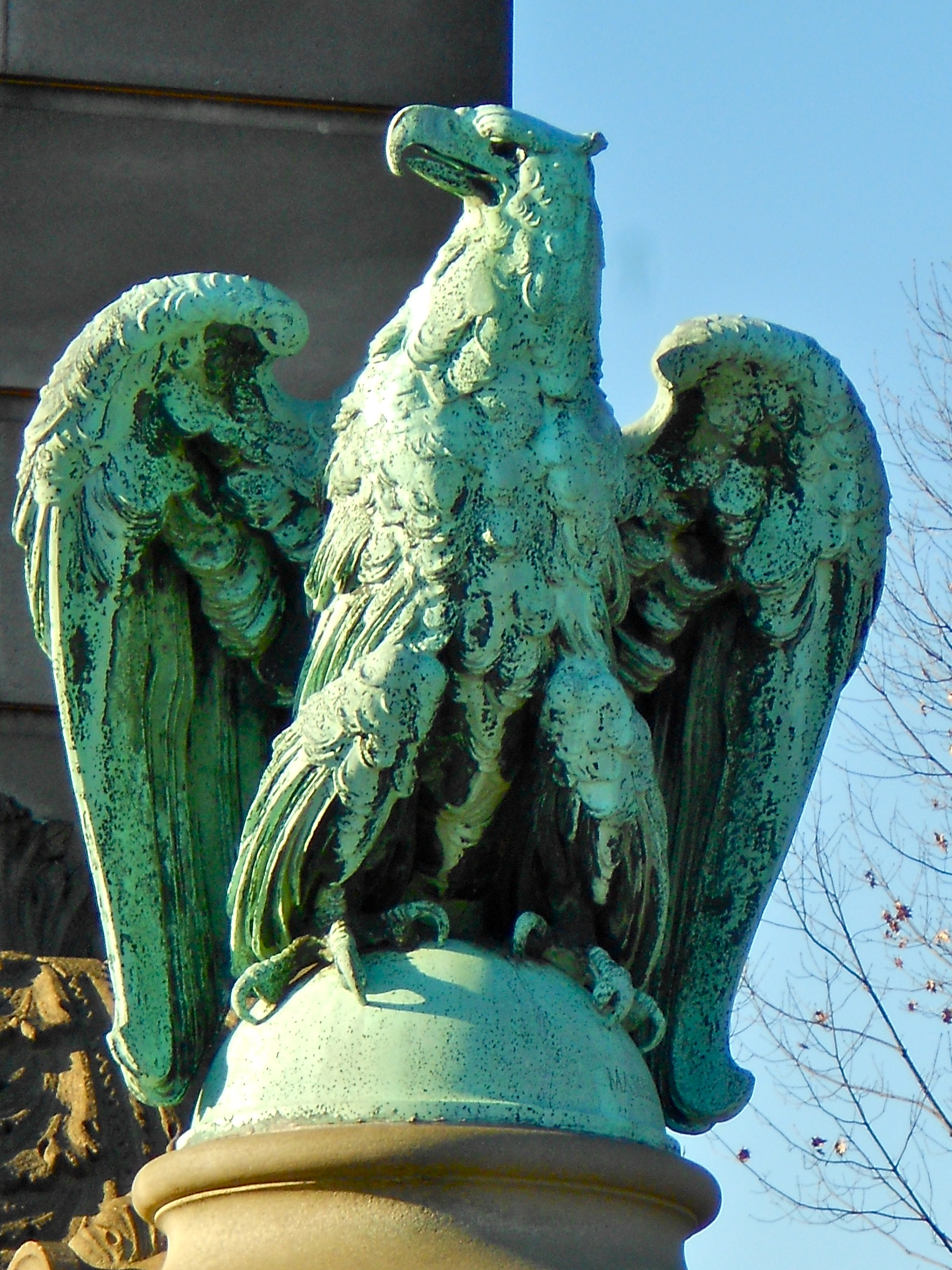 One of a pair of eagles on the Smith Memorial Arch just west of the Schuylkill River in Philadelphia, Pennsylvania. The arch is on the National Register of Historic Places. By sculptor John Massey Rhind (1860-1936)